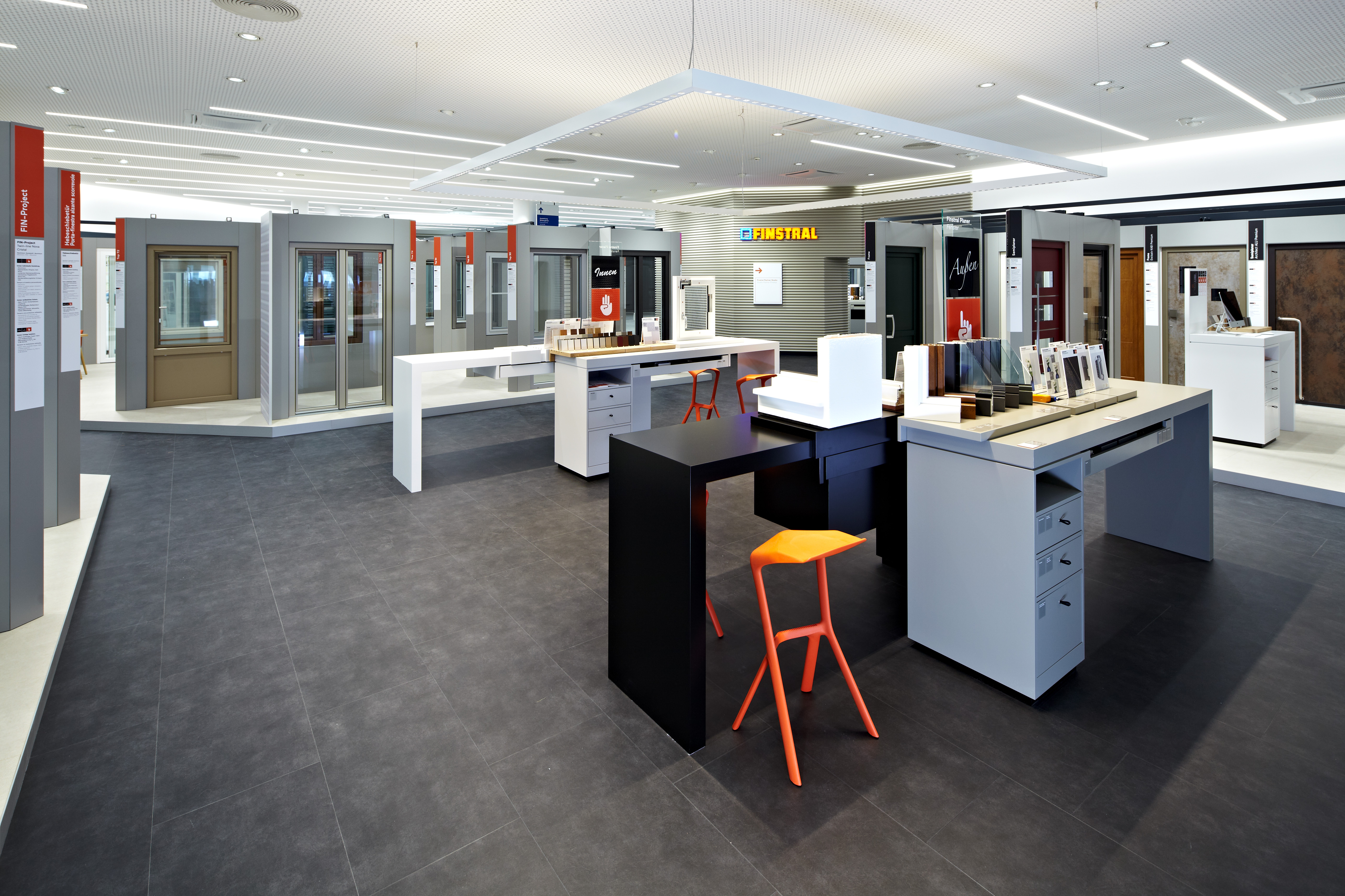 Finstral Studio/Showroom